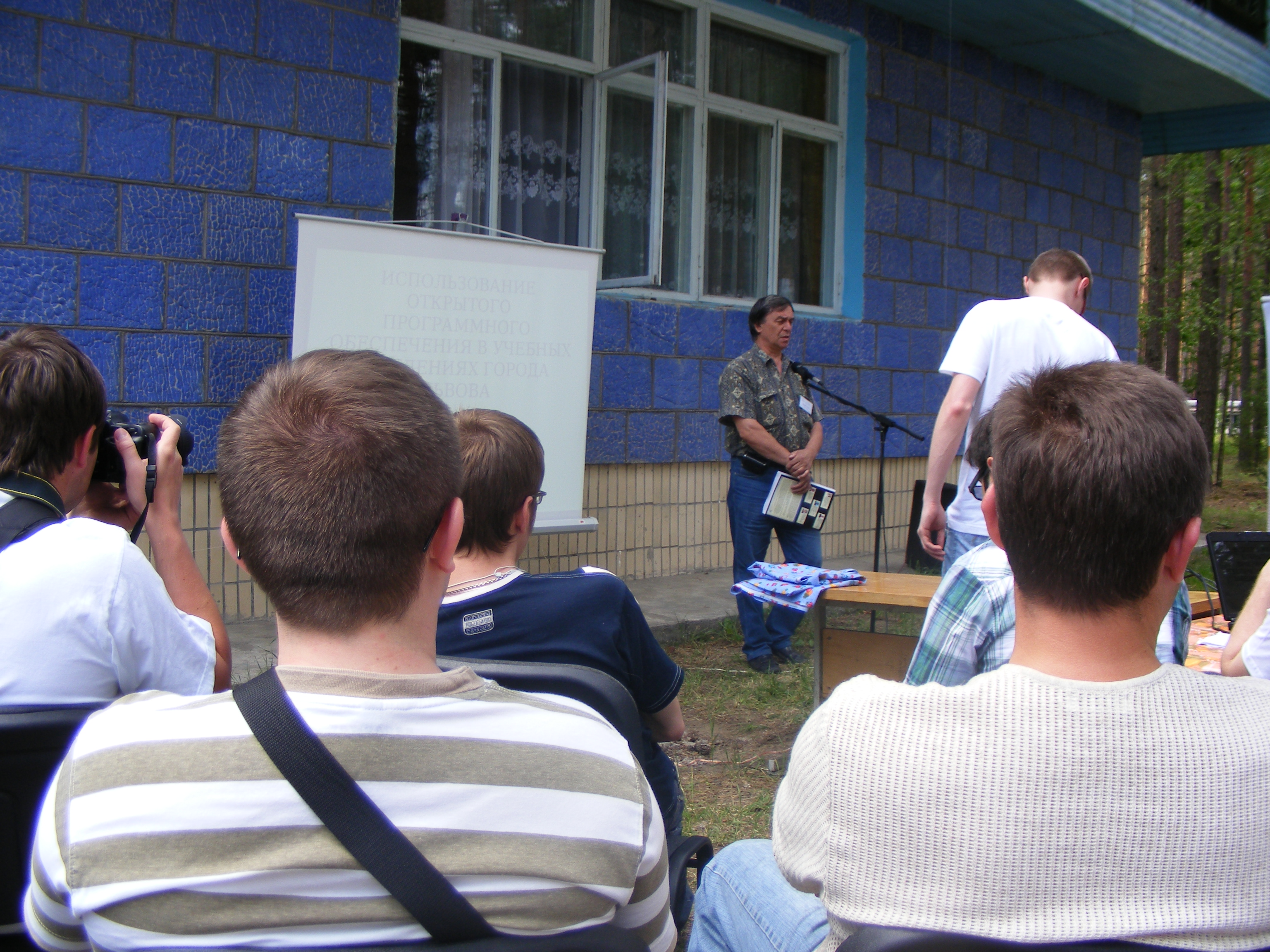 Speech held by one of Linux Vacation / Eastern Europe 2008 conference participants from Lviv (Ukraine), 3rd day of the conference.